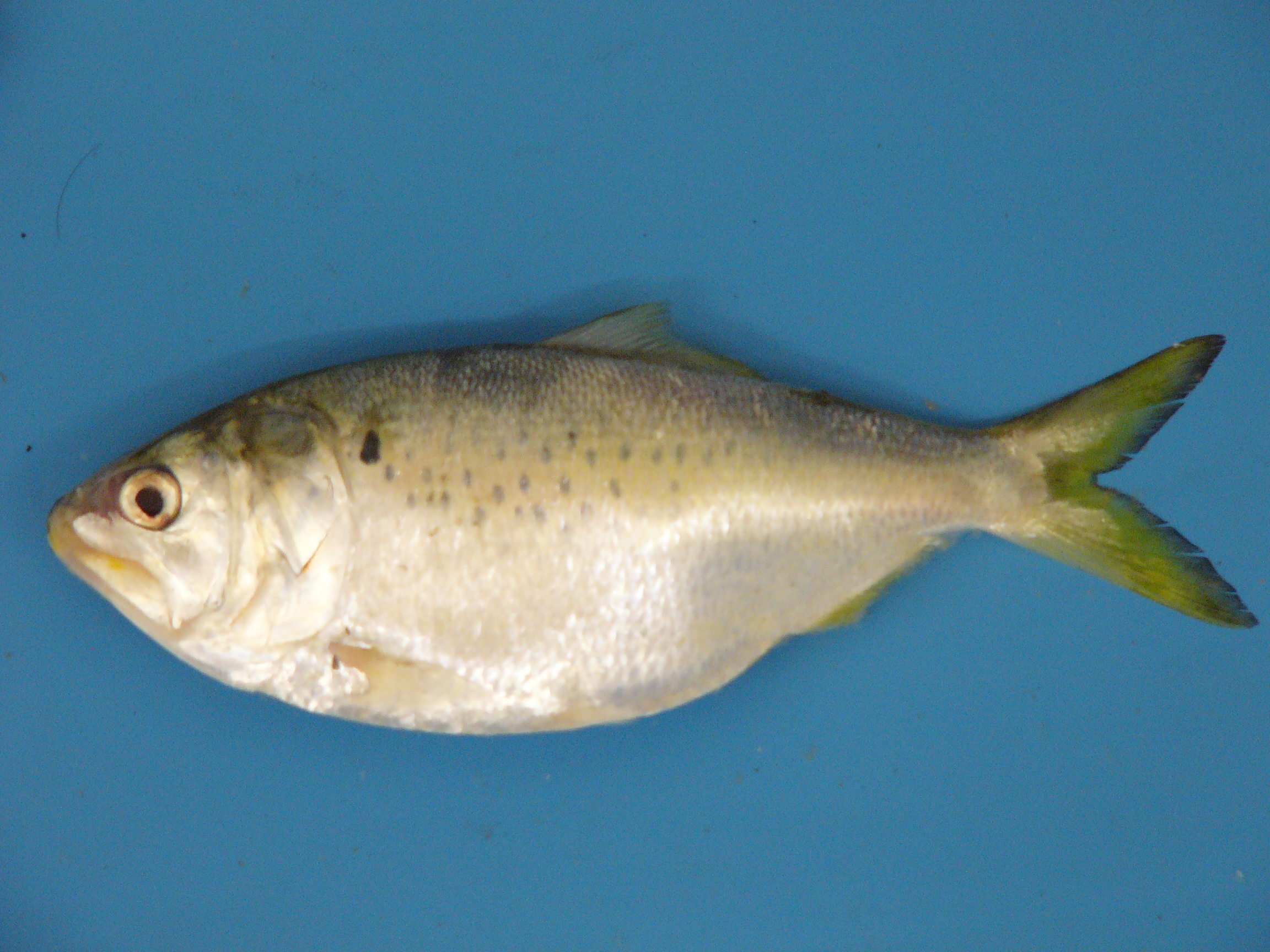 Gulf menhaden, Brevoortia patronus, collected in Galveston Bay, Texas, USA